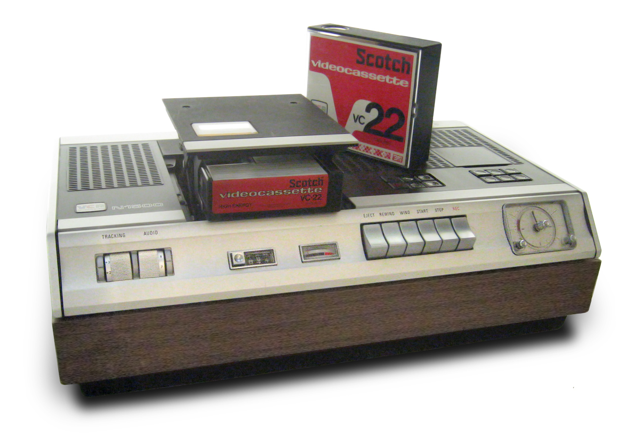 N1500 VCR